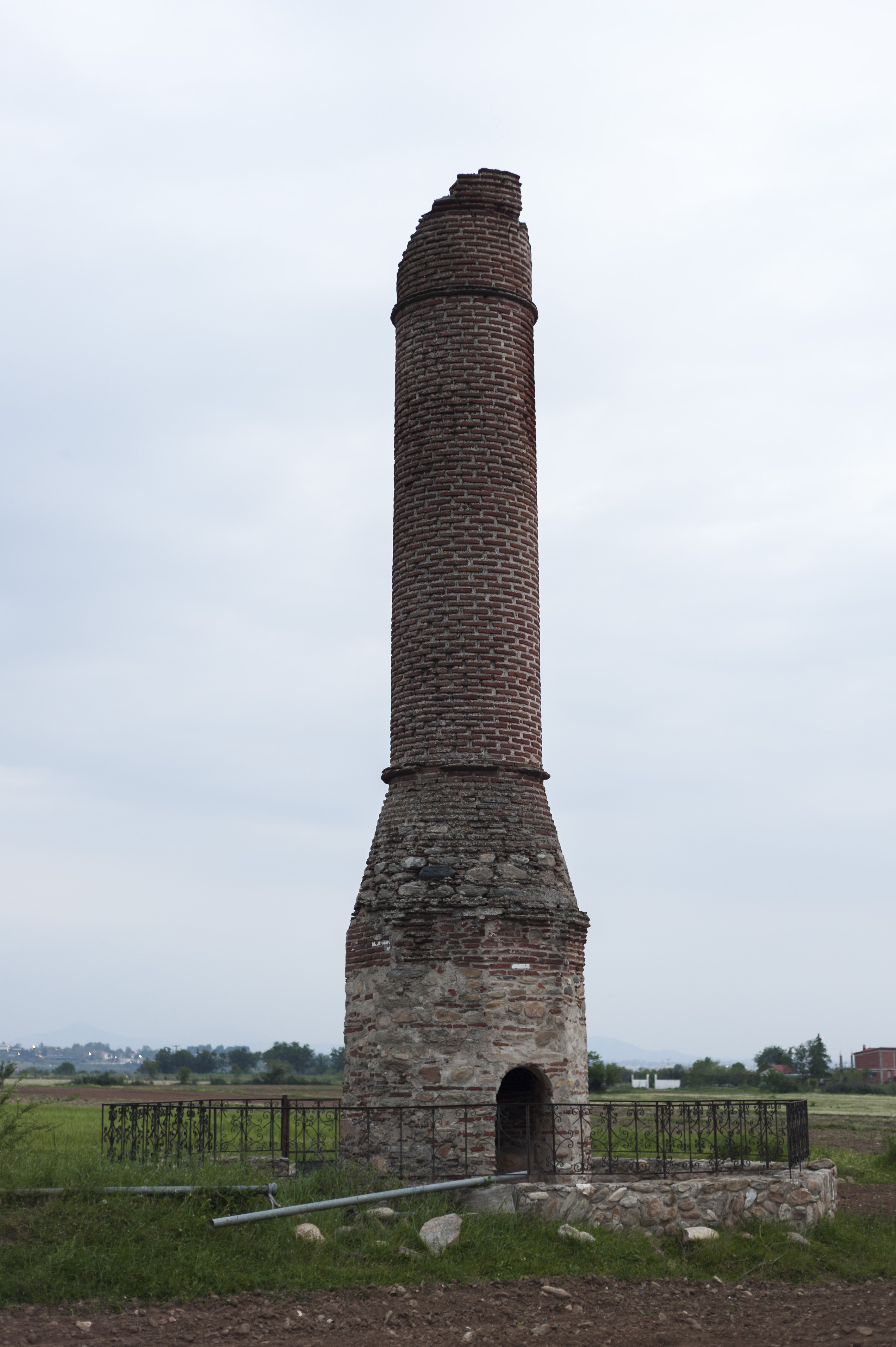 Minaret Eski Gumulzine, Komotini, Thrace, Greece.